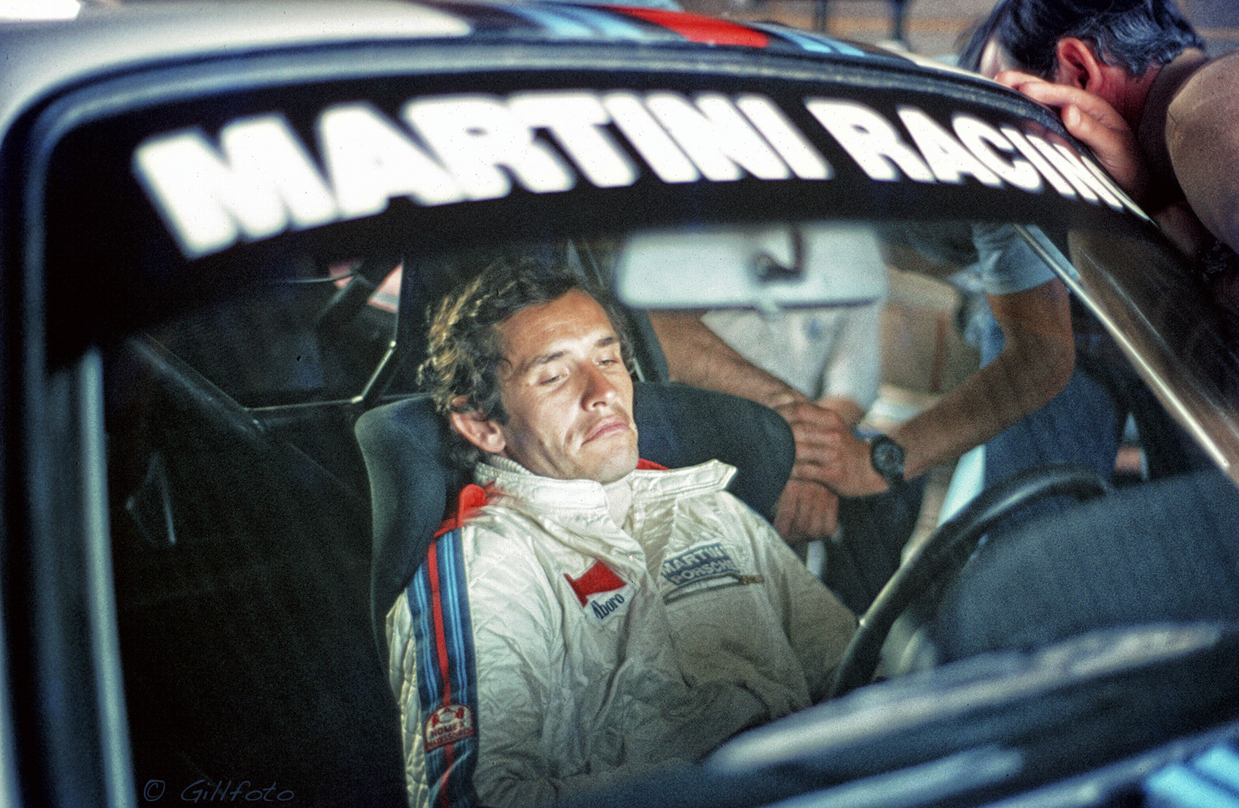 Jacky Ickx with Porsche Martini Racing at Silverstone 6 Hours Sports Car Endurance Race 1976. The World Championship For Manufacturers.